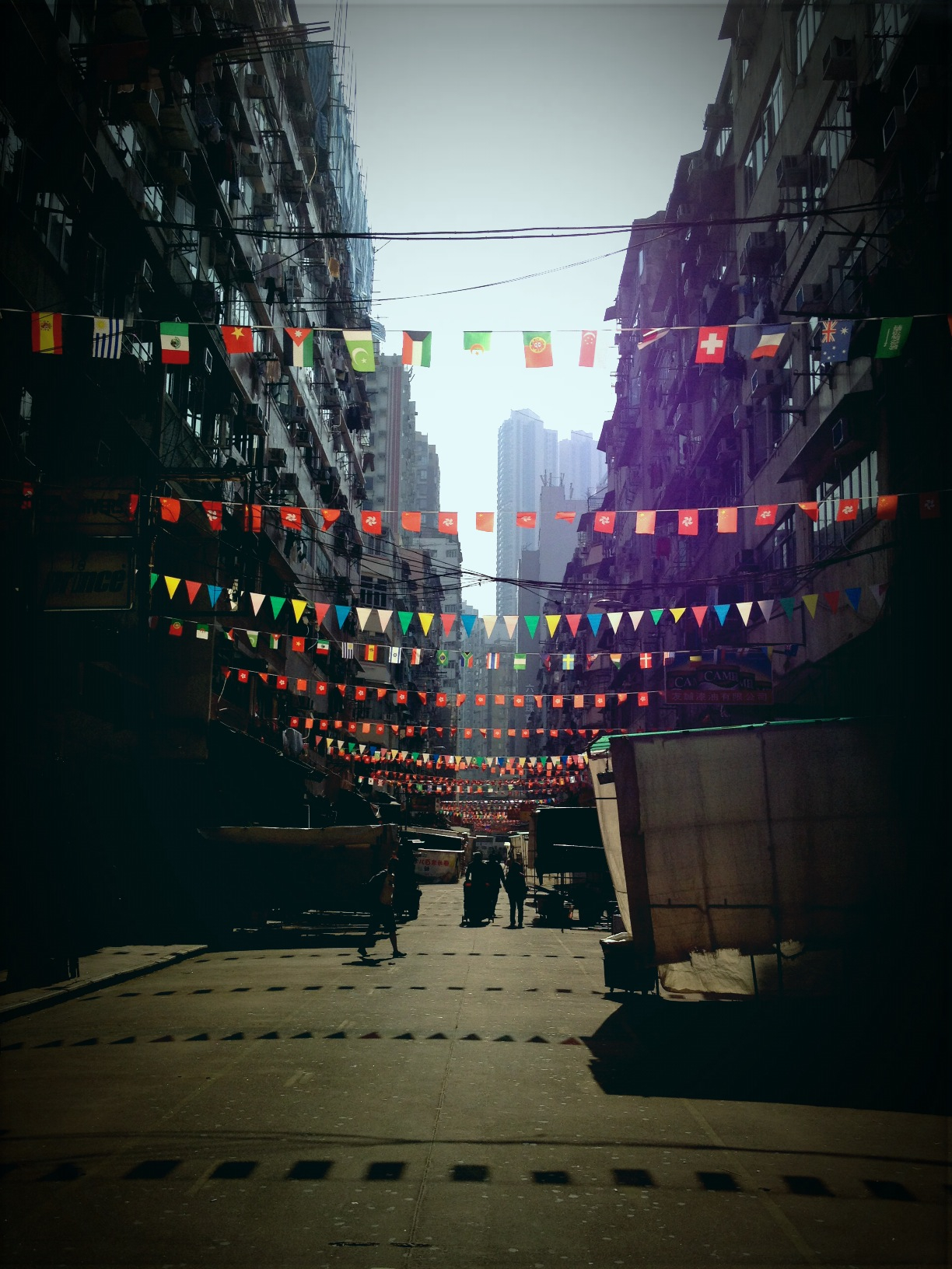 Temple Street Market: mid-morning before the night market stands have been erected.